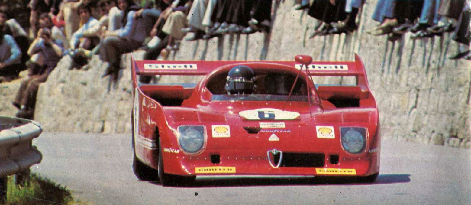 Province of Palermo (Sicily, Italy), "Piccolo Madonie" road circuit, May 13, 1973. Italian motor racing driver Andrea De Adamich on an Alfa Romeo 33 TT/12 (S 3.0) of Autodelta S.p.A., sponsored Shell/Carello, at the 1973 Targa Florio.